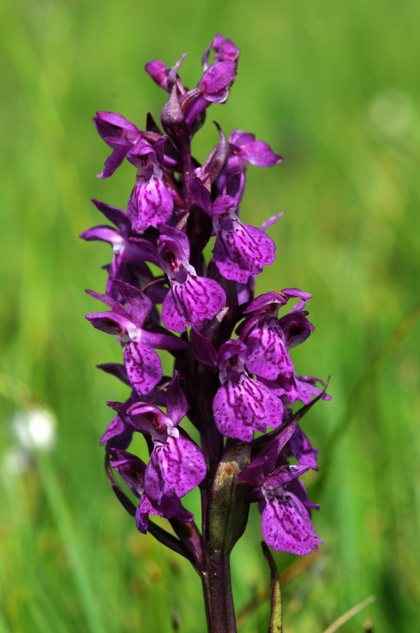 Dactylorhiza lapponica, inflorescence. Tågdalen, Surnadal, Norway.